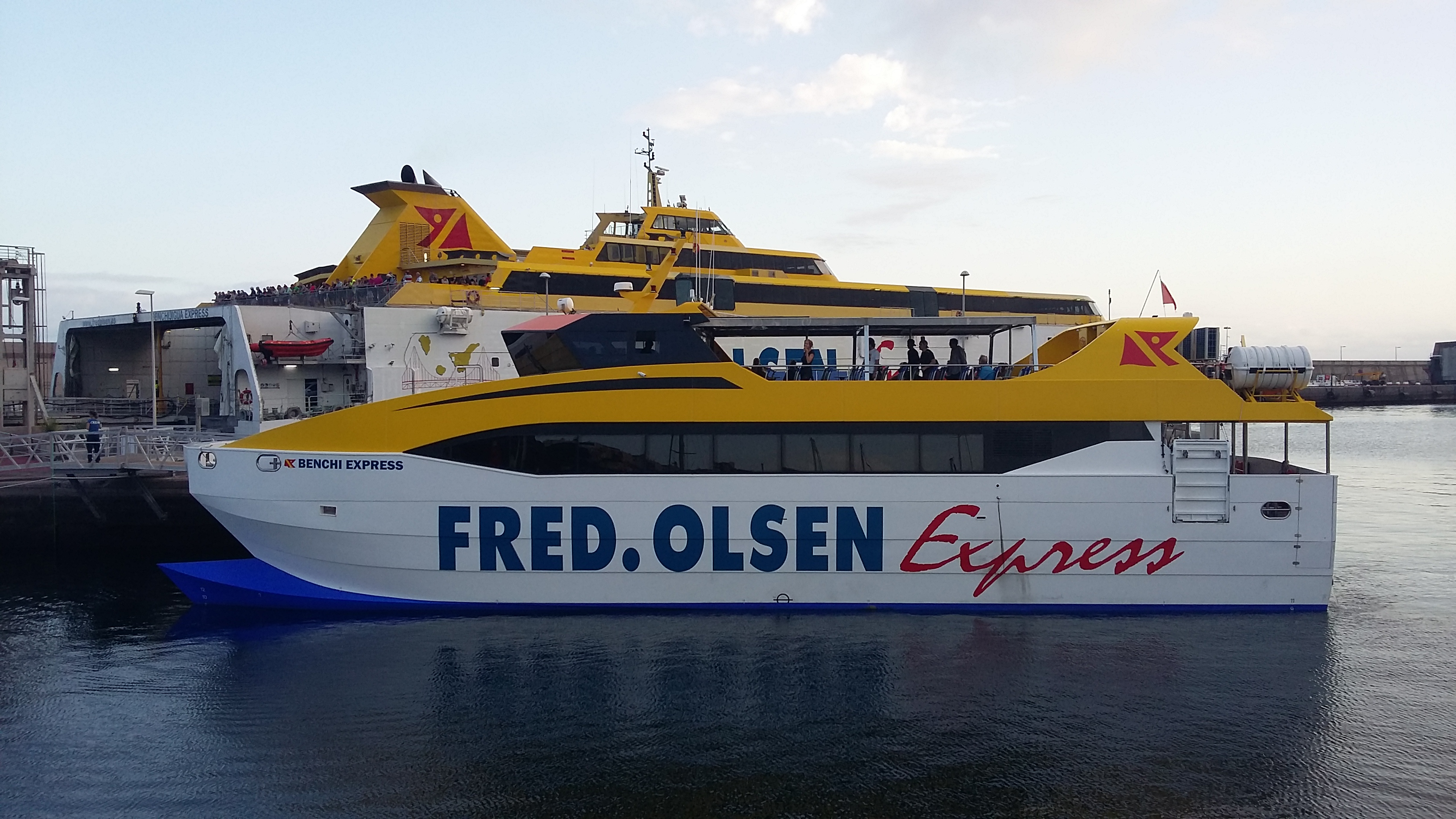 Benchi Express in the harbour of San Sebastián de La Gomera. In the background: The Benchijigua Express